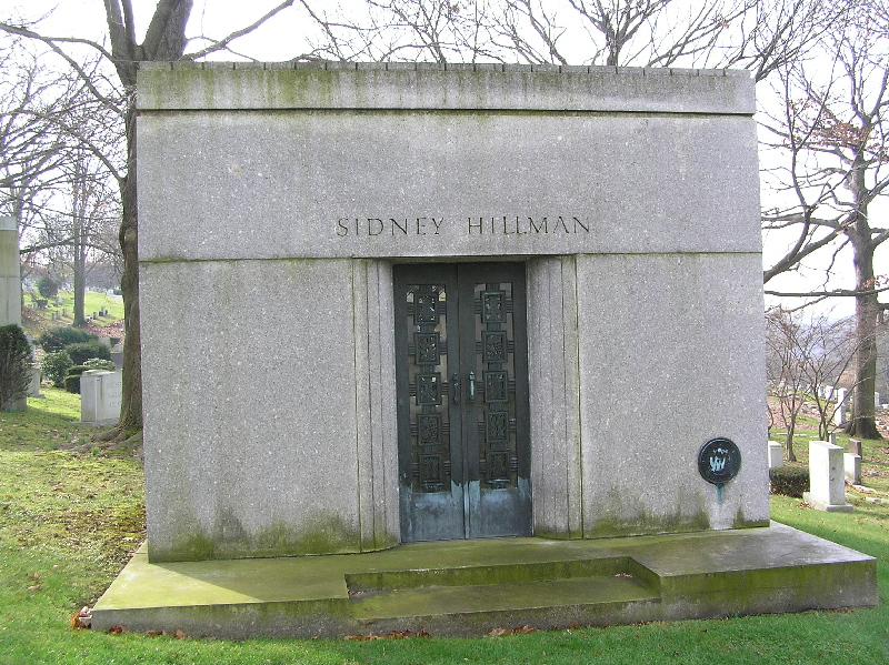 I took this photograph of Sidney Hillman's mausoleum in Westchester Hills Cemetery on November 27, 2006. — GNU Free Documentation License